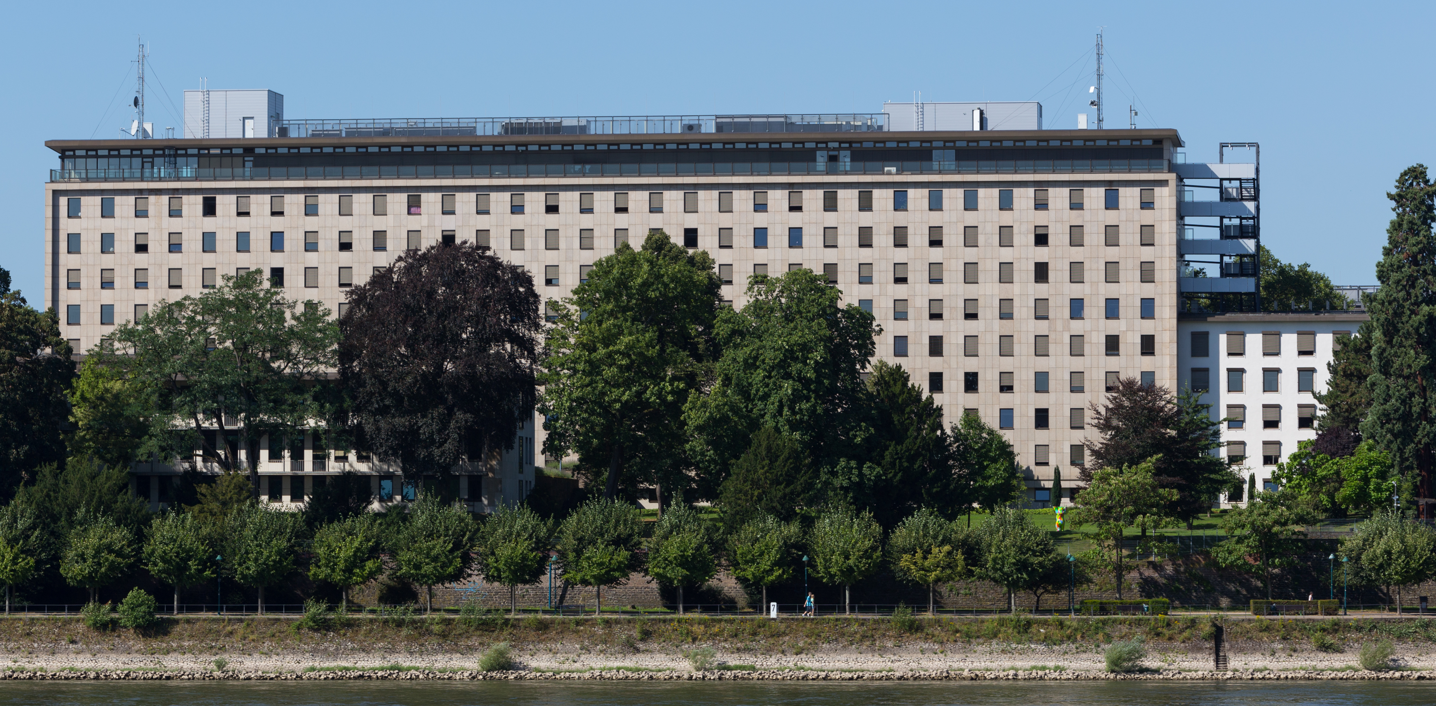 Total view of the building Adenauerallee 99–103 in Bonn, photo taken from the opposite Rhine riverside. The building in Bonn (postal address: Adenauerallee 99–103) is and has been official residence of multiple German federal authorities: Second official residence of the Federal Foreign Office Second official residence of the Federal Ministry of Justice and Consumer Protection Official residence of “Bundesamt für Justiz” Official residence of the “Federal Crime Register” (German Bundeszentralregister) in Bonn. Prior the year 1999 the building was exclusively seat of the Federal Foreign Office, afterwards the “Federal Crime Register” moved from Berlin to Bonn. The building is located in front of the Rhine bank.